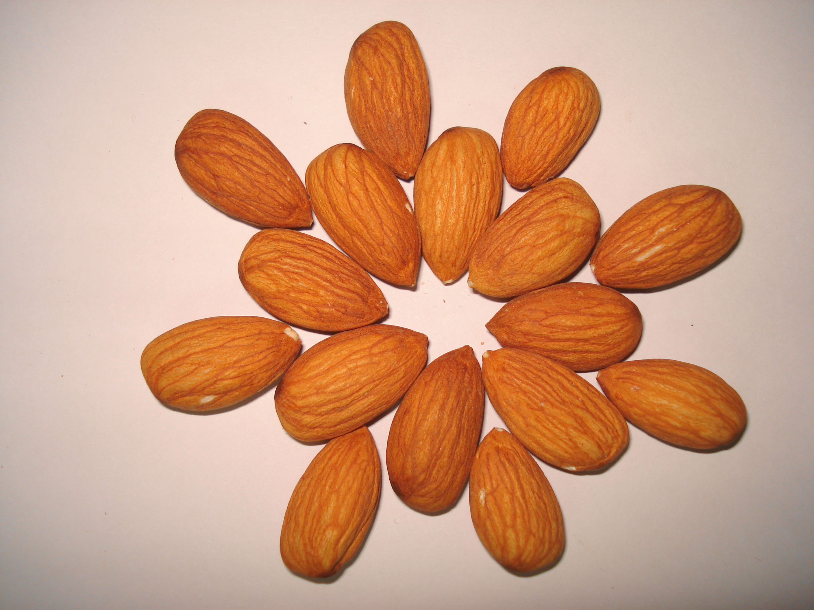 Badam in urdu used in Afghani pullao